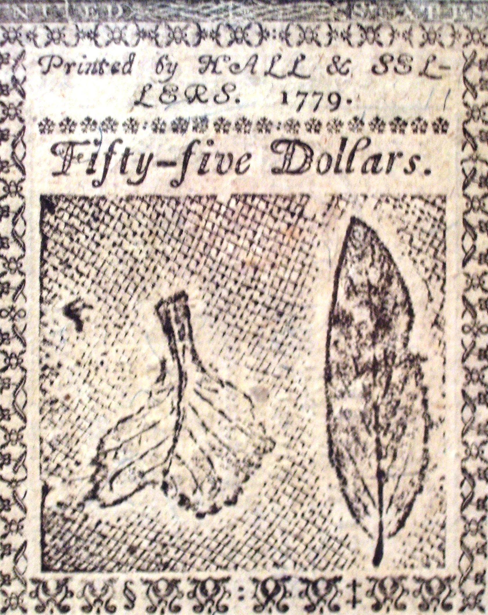 The back (reverse) of a 1779 fifty-five dollar bill of Continental currency. The nature print design was developed by Benjamin Franklin for use on Pennsylvania currency in the decades before the American Revolution. Since no two leaves are alike, it was hoped that the design would aid in detecting counterfeit bills. Franklin's specific method for making these was kept a secret and is unknown, but this form of nature printing was prevalent in the American colonies and the United States from the 1730s through 1779, when Delaware, Maryland, Pennsylvania, and New Jersey issued nature-printed currency. After Franklin retired from printing, his partner David Hall formed the firm of Hall & Sellers, which (after Hall's death) used Franklin's technique on Continental bills like this one. For more info, see here, here, and here. From a private collection, exhibited at Glyndor Gallery, Wave Hill, The Bronx, New York.